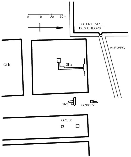 Giza, east cemetery, the shaft-tomb of Hetepheres I. (G7000x) and the unfinished cutting of a pyramid descendig passage